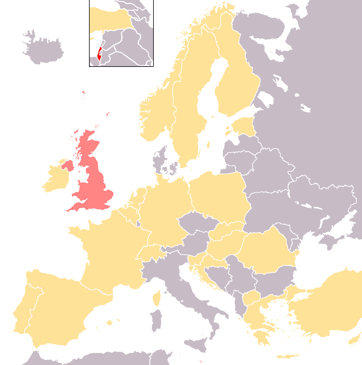 Map of Eurovision 1998